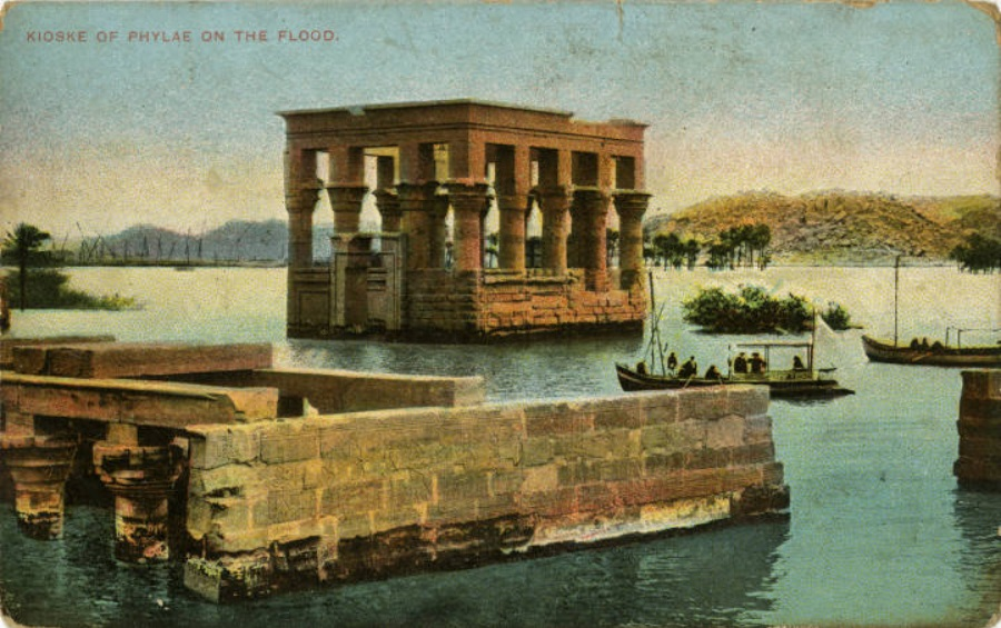 Postcard showing Philae flooded.